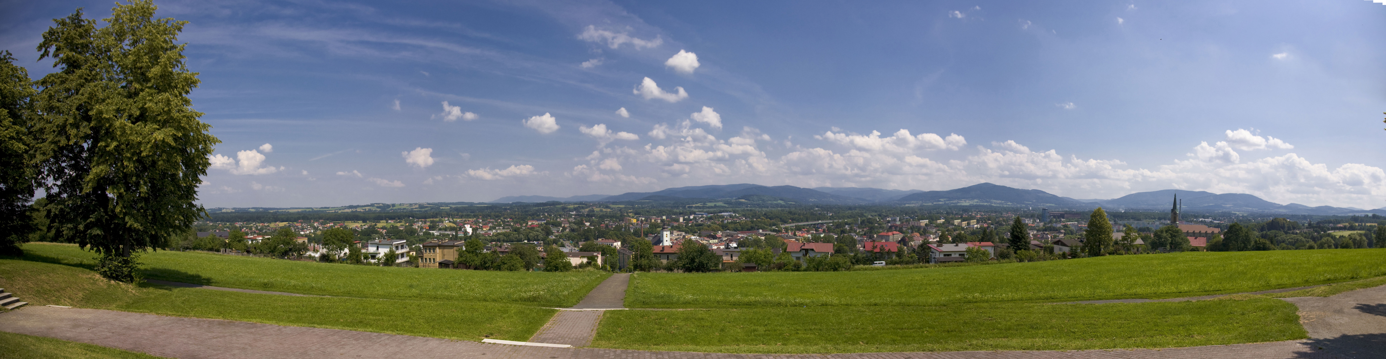 The panoramic view from the Kaplicowka Hill in Skoczów in the south of Poland.